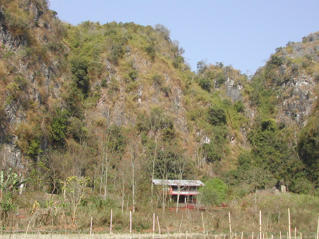 This is the entrance to the cave where someone of the Pathet Lao lived during the Indochina war. It is located in Vieng Xai, Laos.